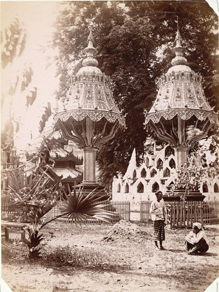 Photograph of Shan umbrellas at Rangoon taken by Frederick Oscar Oertel in the 1870s. The umbrella or hti is used to adorn Burmese royal and religious architecture and is usually seen as an architectural element forming the pinnacle of a stupa. Htis are often made of gold decorated with precious stones and were traditionally donated by kings and queens. The pair of umbrellas in this view stand on the platform of the Shwe Dagon Pagoda, Burma's’s most revered Buddhist shrine. It is thought that the umbrellas are of Shan manufacture or origin. The Shan States formed most of north-eastern Burma and the Shan people are known for their silverware. The hand-written notes on the mount were made by Sir Richard Carnac Temple, who used the image to illustrate a lecture on 'Developments in Buddhist Architecture'. This image was published in George W. Bird, 'Wanderings in Burma' (London, 1897).